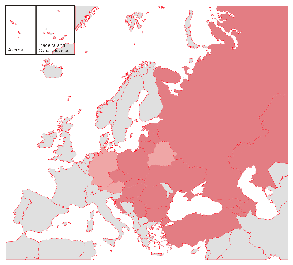 European countries with Ural Field Mouse (Apodemus uralensis) occurence